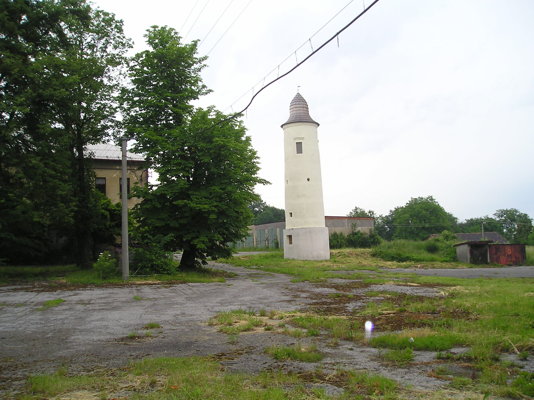 Annonce Tower in Chotěbuz